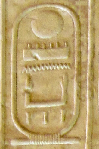 Cartouche 24, Abydos King List. Temple of Seti I, Abydos, Egypt